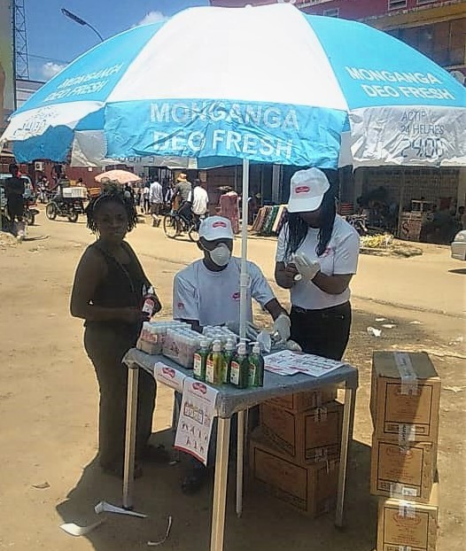 This is an image with the theme "Africa on the Move or Transport" from: Democratic Republic of the Congo